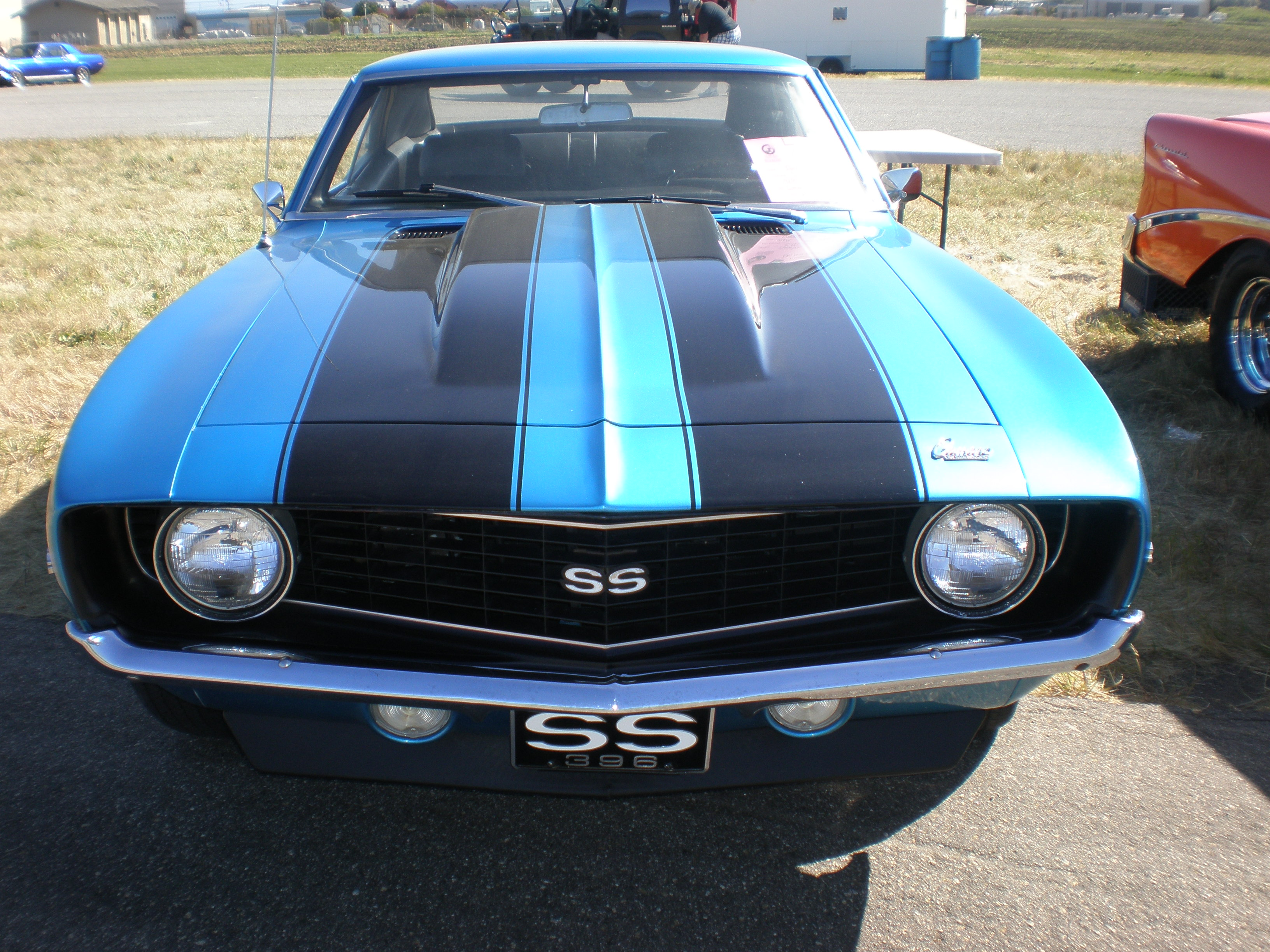 A 1969 Chevrolet Camaro SS at the Pacific Coast Dream Machines vehicle show at the Half Moon Bay Airport in Half Moon Bay, California.